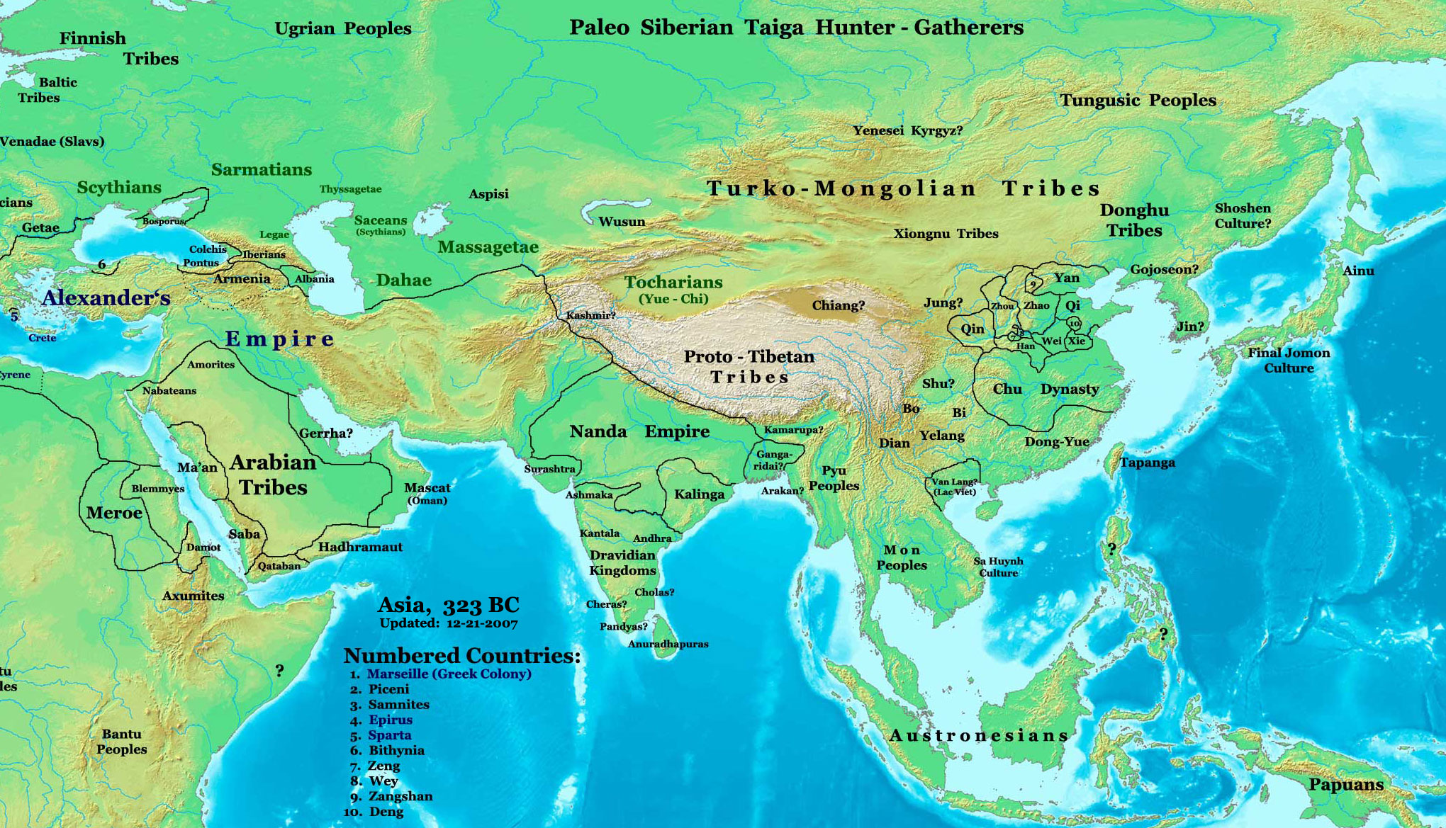 This image is a zoomed-in version of Eastern Hemisphere in 323 BC. thumb|300px|left|Eastern Hemisphere in 323 BC. Author: Thomas A. Lessman. Source URL: Image was created by me (Thomas Lessman) based on map of Eastern Hemisphere in 323 BC. Image is free for public and/or educational use. I would appreciate a mention if this image is used elsewhere. If anyone is interested in helping further this work, please contact Thomas Lessman at . Other Historical Maps by Thomas Lessman 1. en: 1300 BC. 2. en: 500 BC. 3. en: 323 BC. 4. en: 200 BC. 5. en: 100 BC. 6. en: 050 BC. 7. en: 001 AD. 8. en: 050 AD. 9. en: 100 AD. 10. en: 200 AD. 11. en: 300 AD. 12. en: 400 AD. 13. en: 475 AD. 14. en: 476 AD. 15. en: 477 AD. 16. en: 500 AD. 17. en: 565 AD. 18. en: 600 AD. 19. en: 700 AD. 20. en: 800 AD. 21. en: 900 AD. 22. en: 1025 AD. 23. en: 1100 AD. 24. en: 1200 AD.